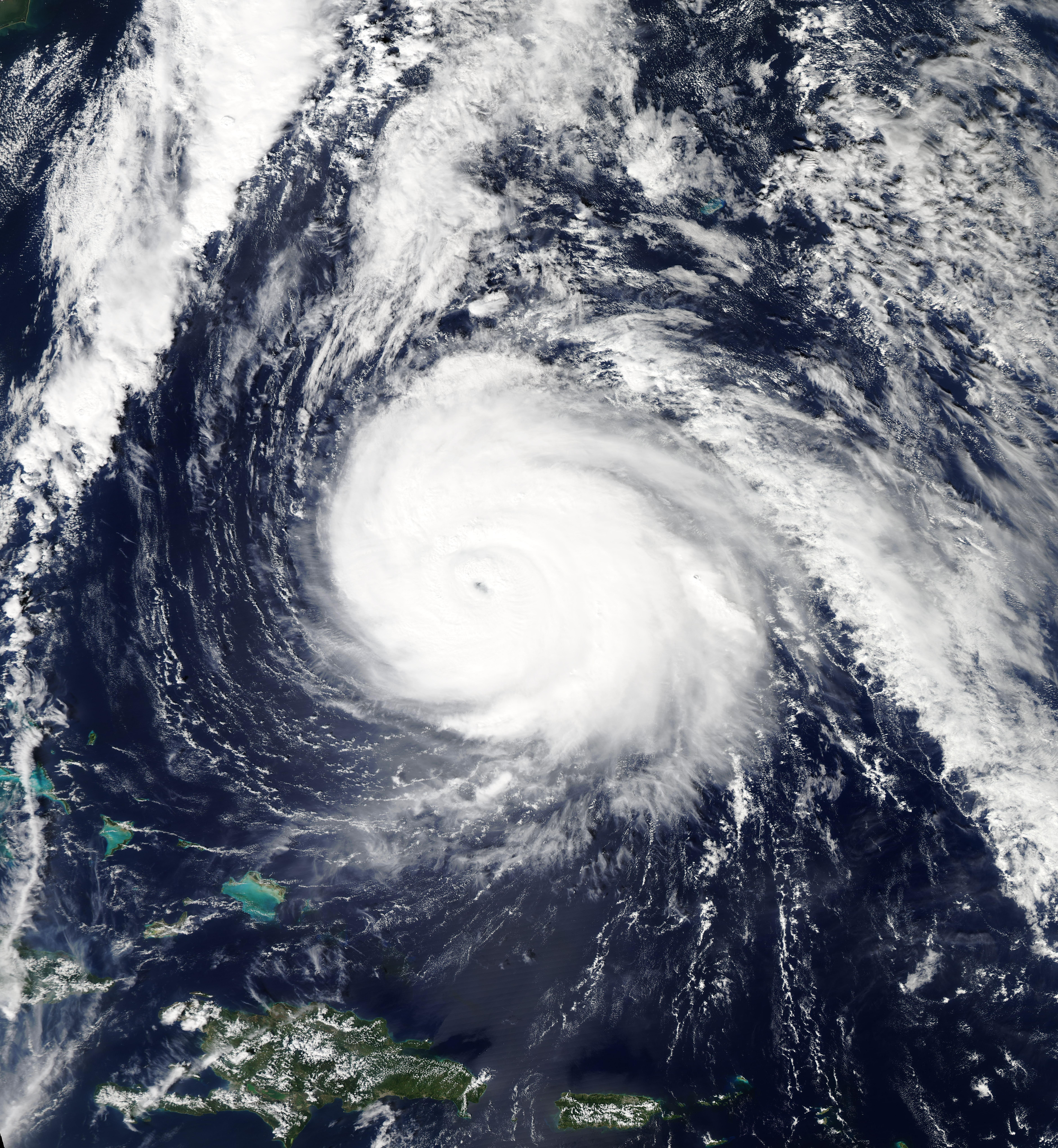 Hurricane Gonzalo as a Category 4 hurricane on October 16, 2014.